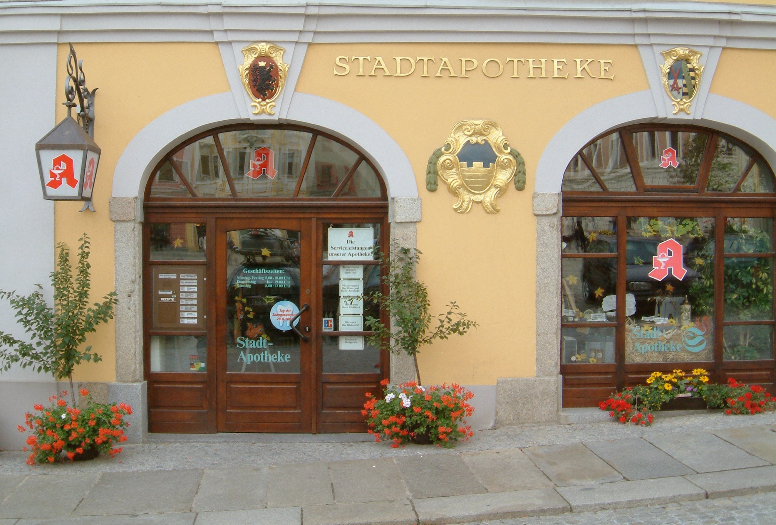 Old pharmacy in Bautzen.